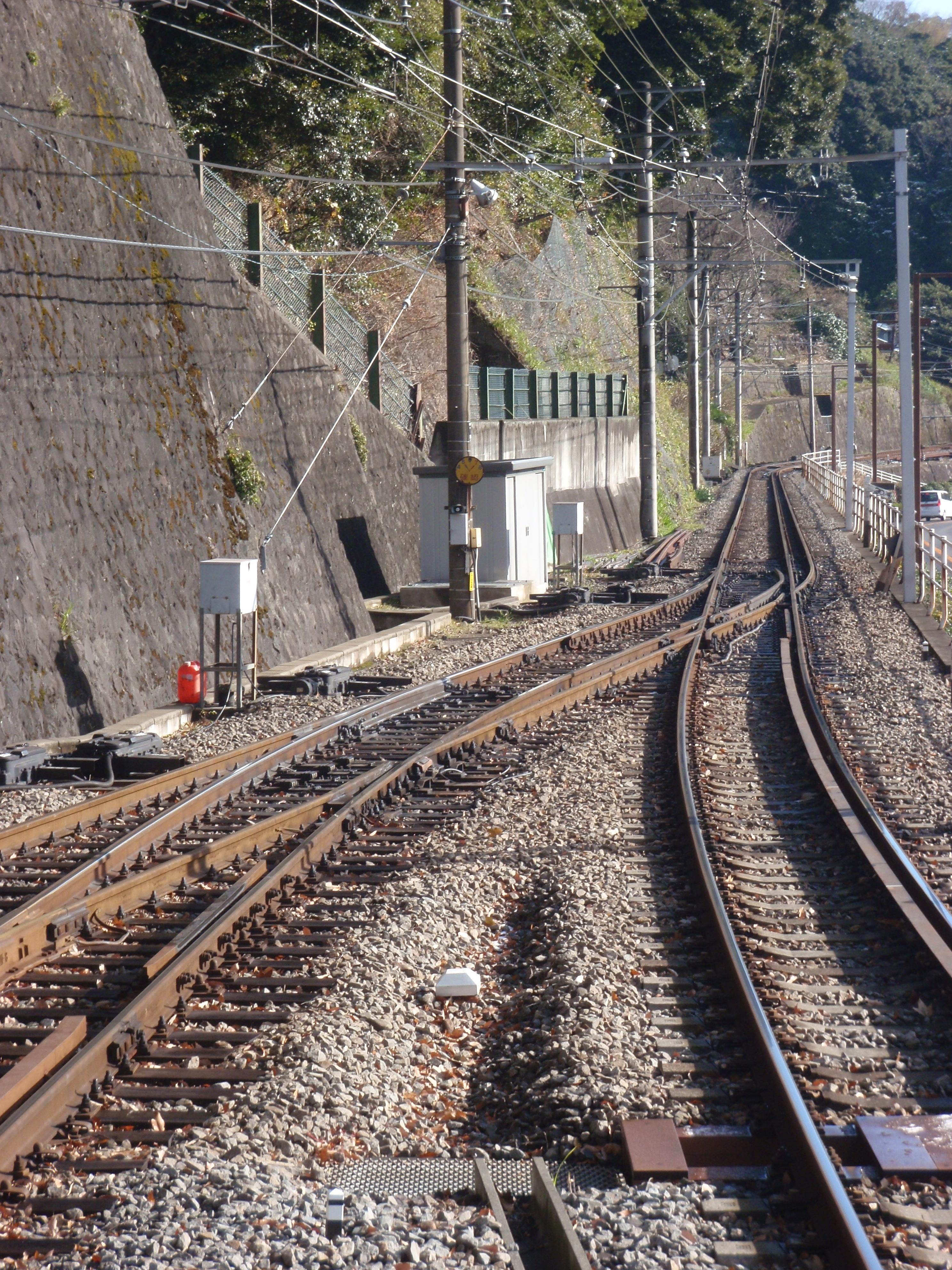 Between Iriuda station and Hakone-yumoto station is dual gauge section consisting of 1067mm and 1435mm gauge as of year 2011. took at Hakone-yumoto station.